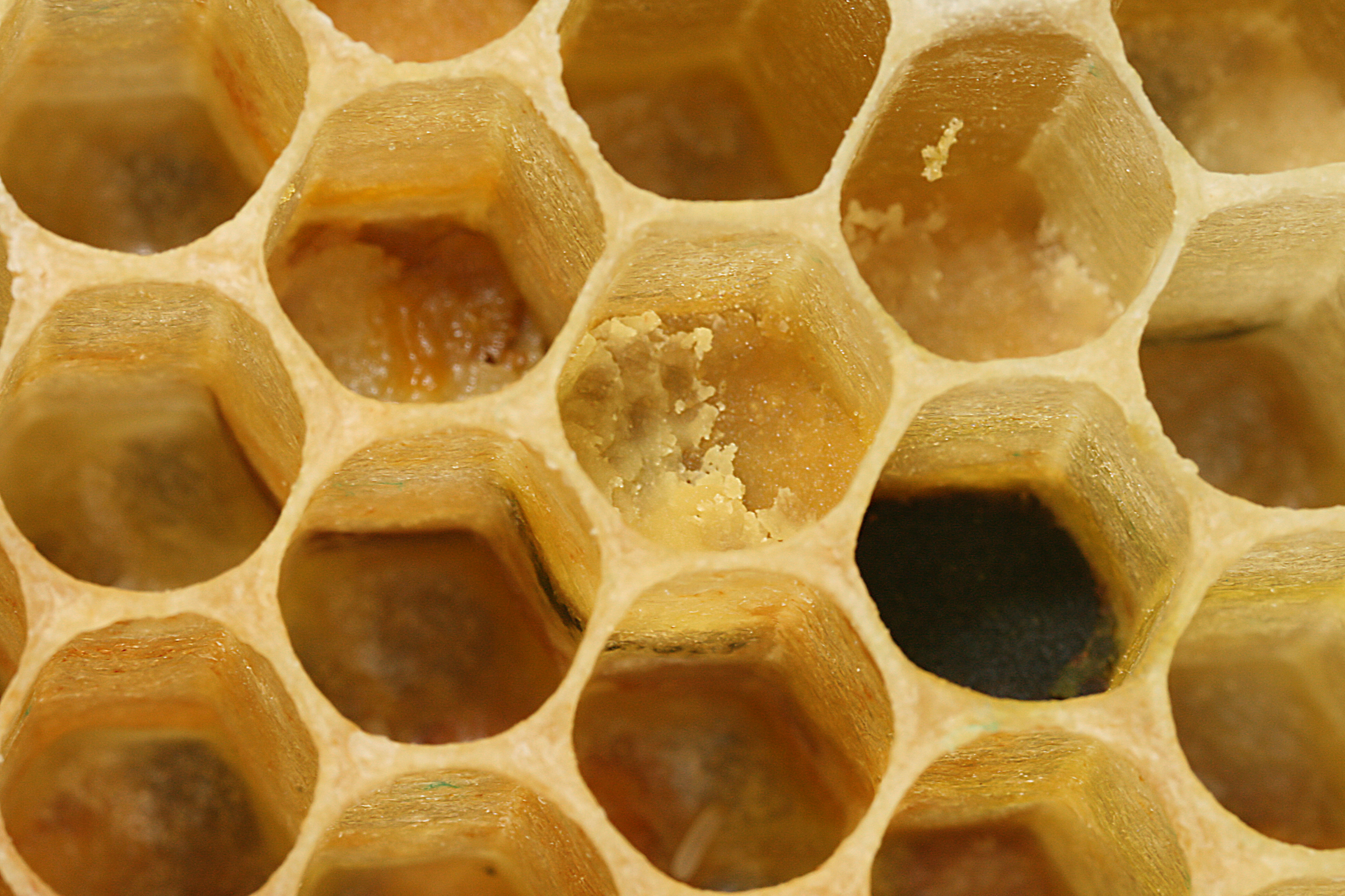 Description: The Carniolan honey bee (Apis mellifera carnica) is a subspecies of Western honey bee. It originates from Slovenia, but can now be found also in Austria, part of Hungary, Romania, Croatia, Bosnia and Herzegovina, and Serbia.